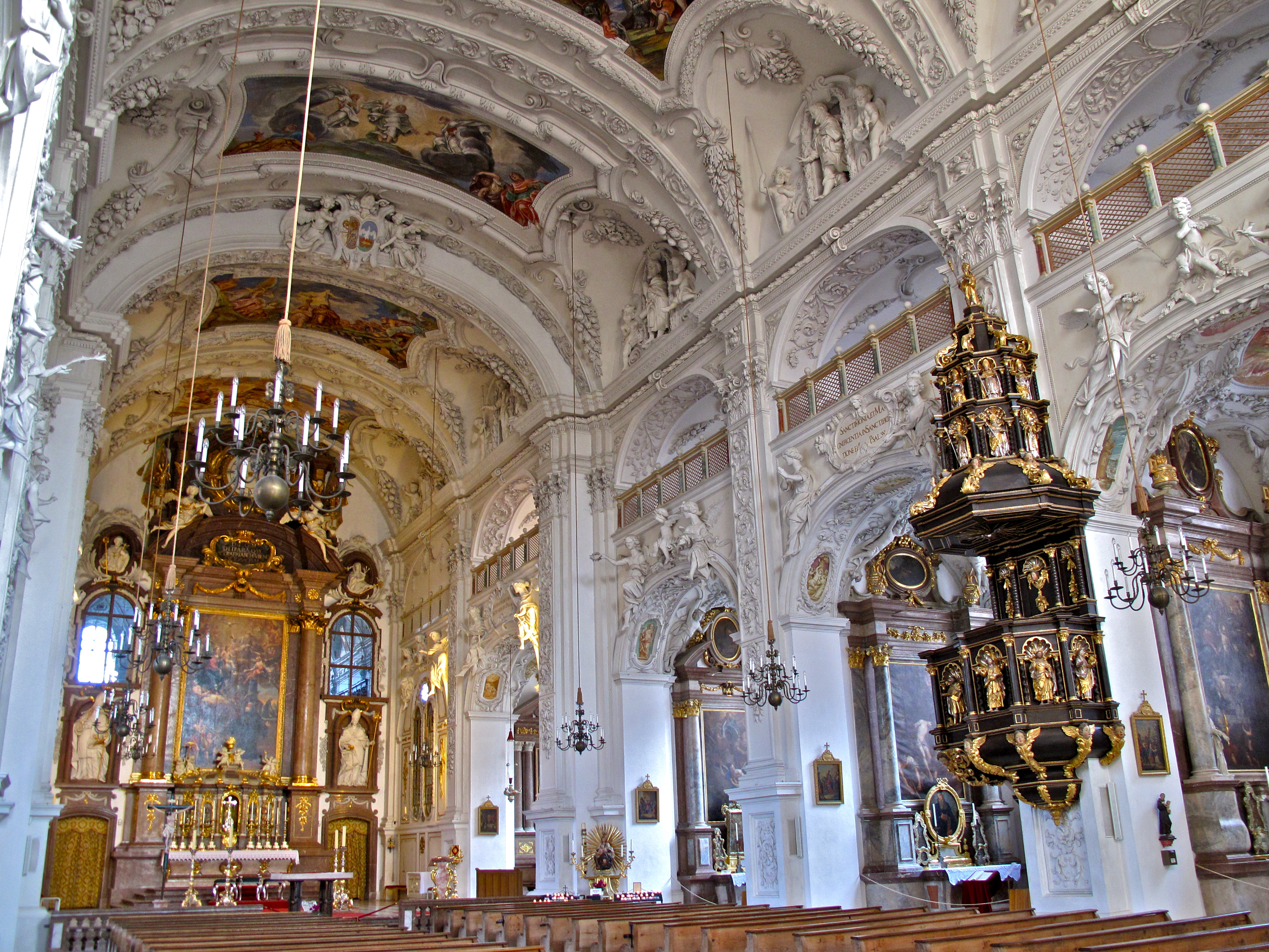 Inside of the parish church St. Benedikt (former minster of the Benediktbeuern Abbey) in Benediktbeuern, Upper Bavaria, Germany